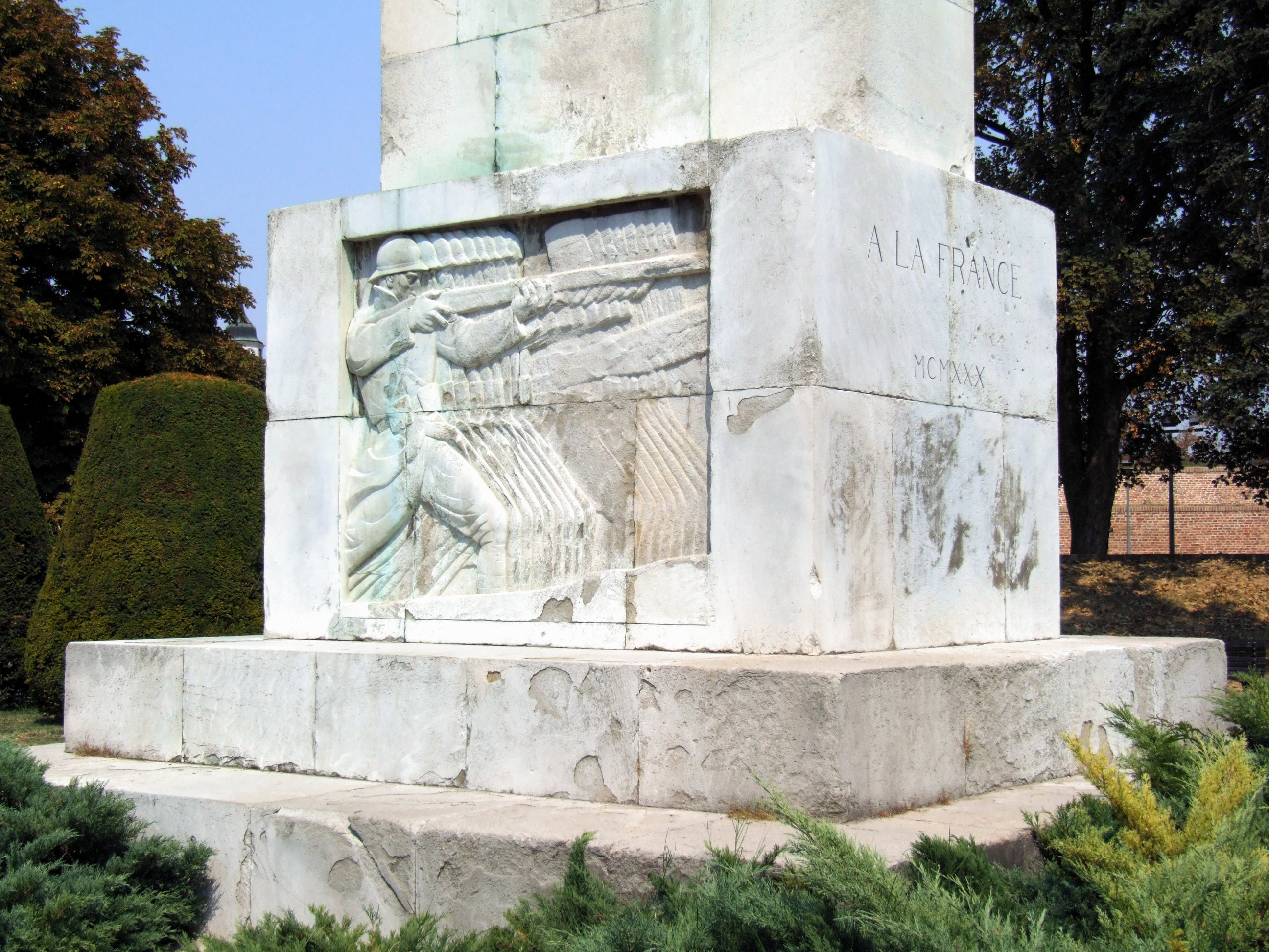 Monument of Gratitude to France in Belgrade